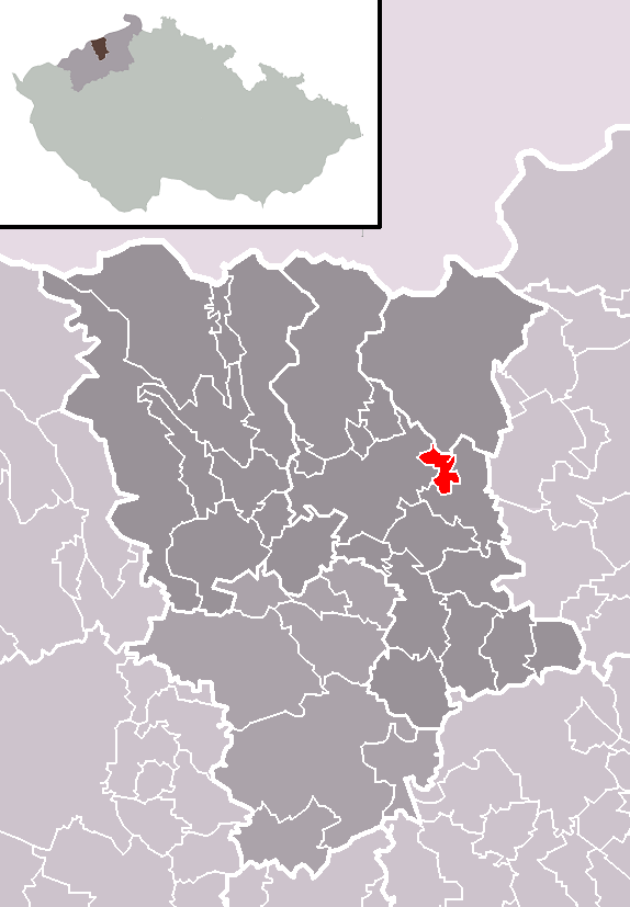 Location of Srbice municipality within Teplice District and administrative area of Teplice as a Municipality with Extended Competence.